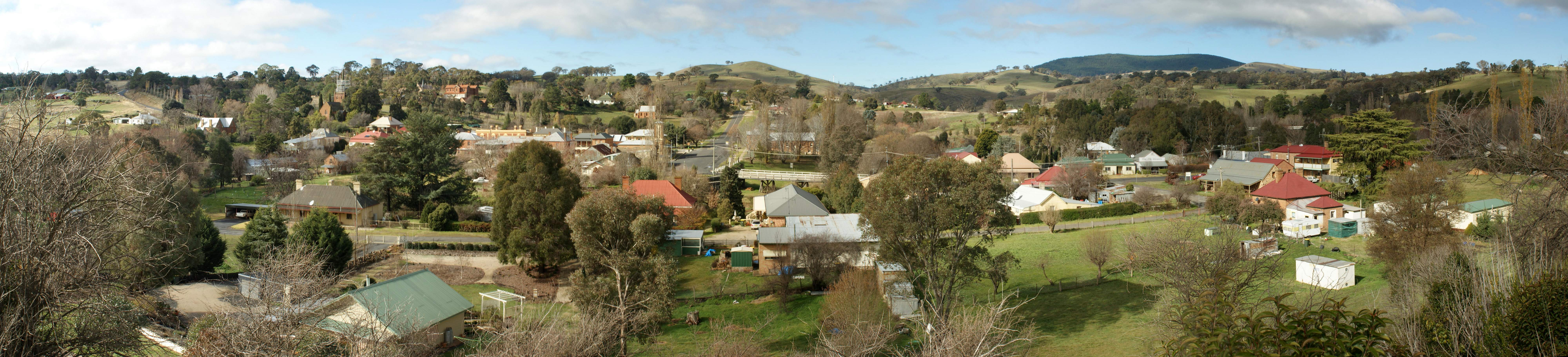 The view from the Railway Station of Carcoar, NSWCarcoar, NSW DSC06357X7